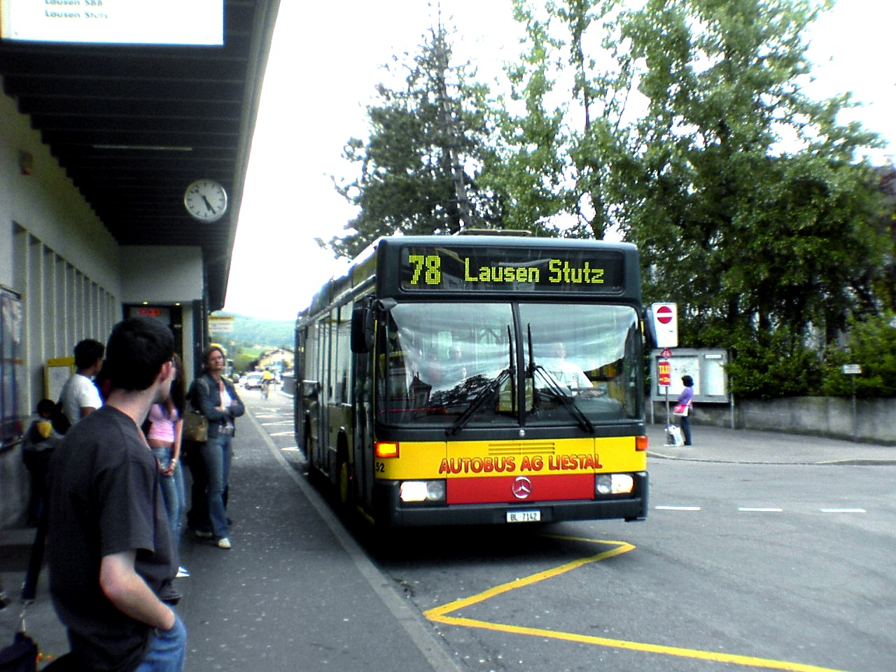 Bus Nr. 78 at Liestal train station Quelle: selbst fotografiert Fotograf/Zeichner: Naef Datum: 2006-05-26